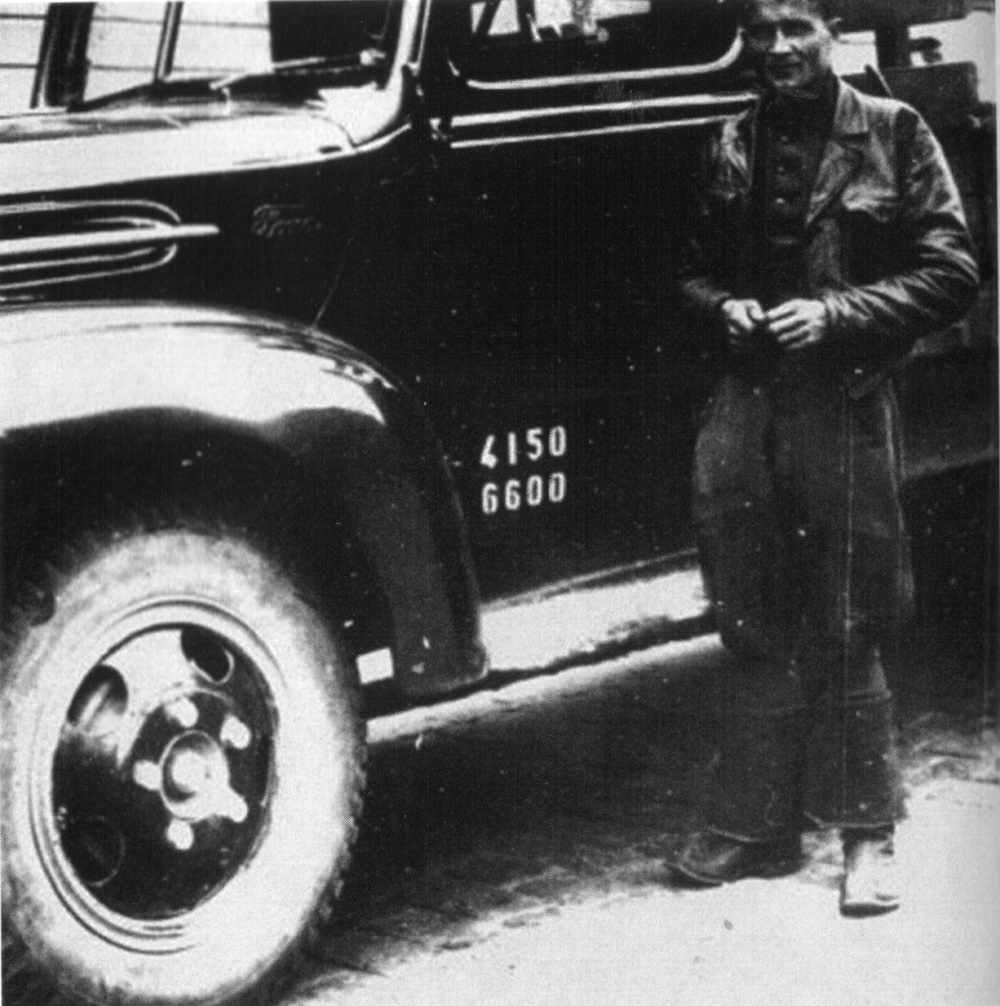 Heikki Määttänen, a member of Finnish long-distance spy patrols that worked for NATO in 1940s and 1950s. Määttänen probably disappeared in the USSR in 1950.